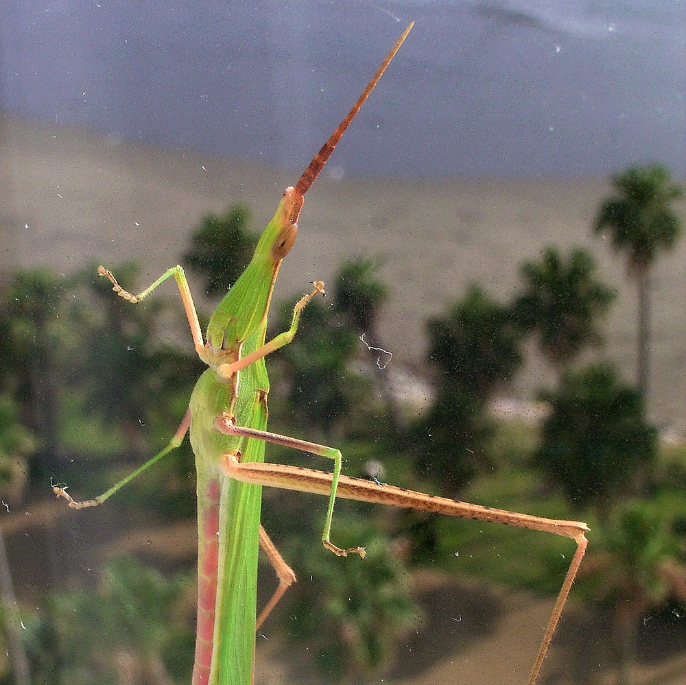 Oriental longheaded locust Location/撮影場所: 宮崎県宮崎市青島。ホテルの８階の窓にて